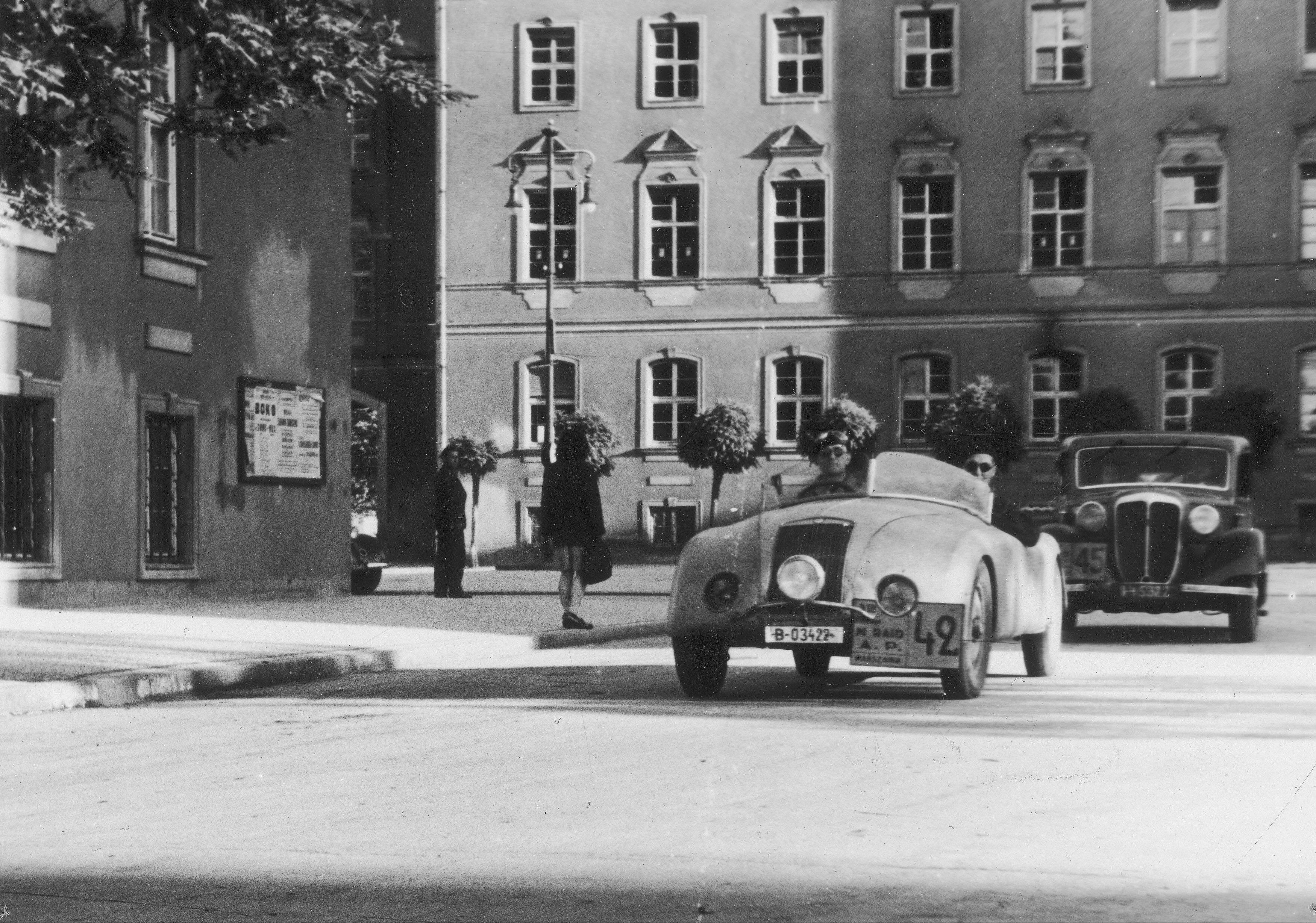 13th Polish Automobileclub Rally in Szczecin. Lancia Aprilla Super Sport nr 42 of Marian Wierzba / Jerzy Strenger. The car apparently has handmade 1946 pattern Warsaw license plate with non-standard inverted colours.